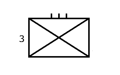 Infantery regiment